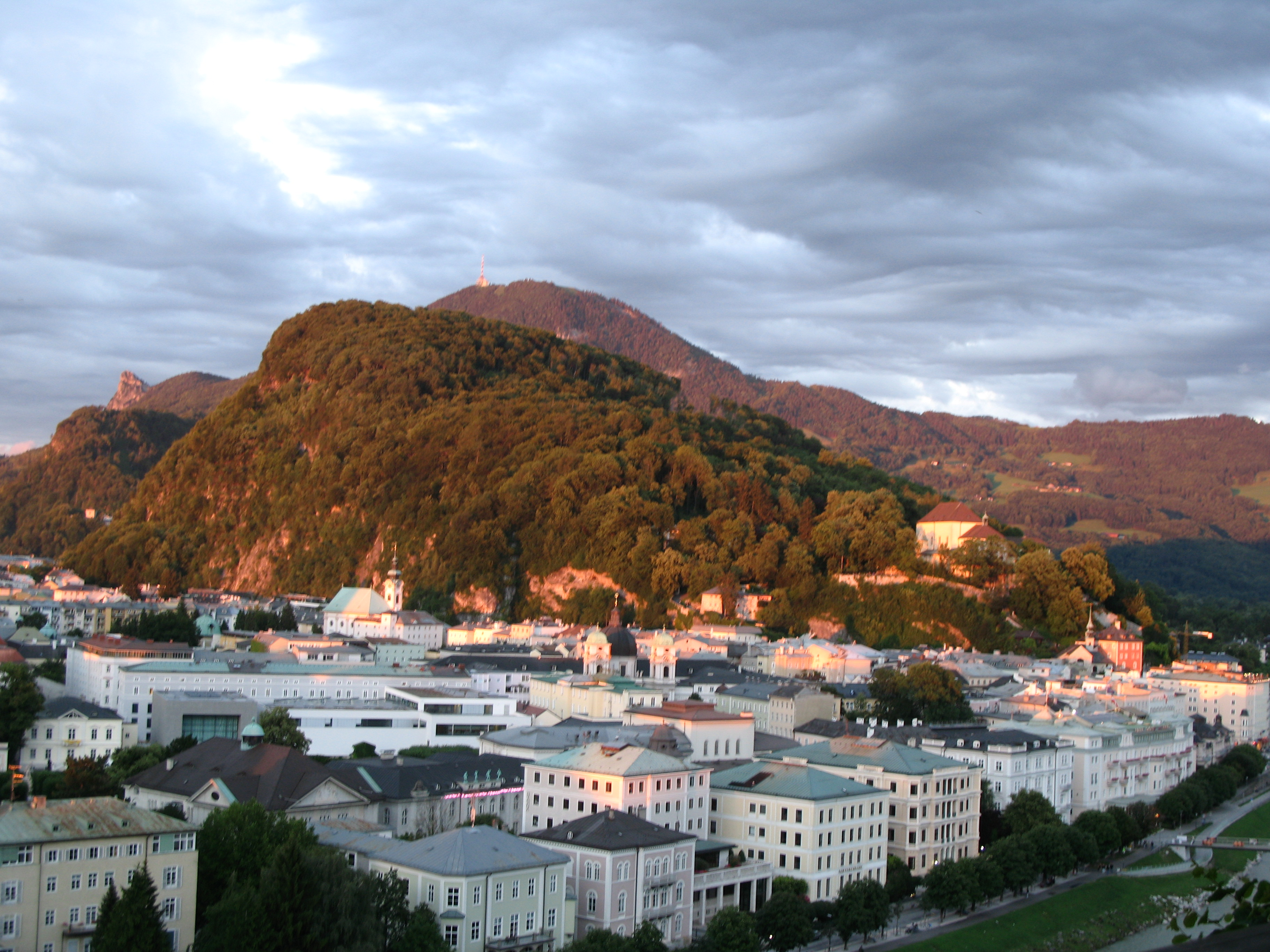 Kapuziner Hill, Salzburg, Austria